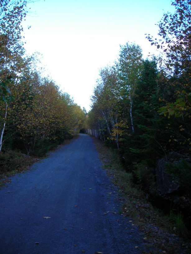 BLT-trail near Timberlea in October 2009.